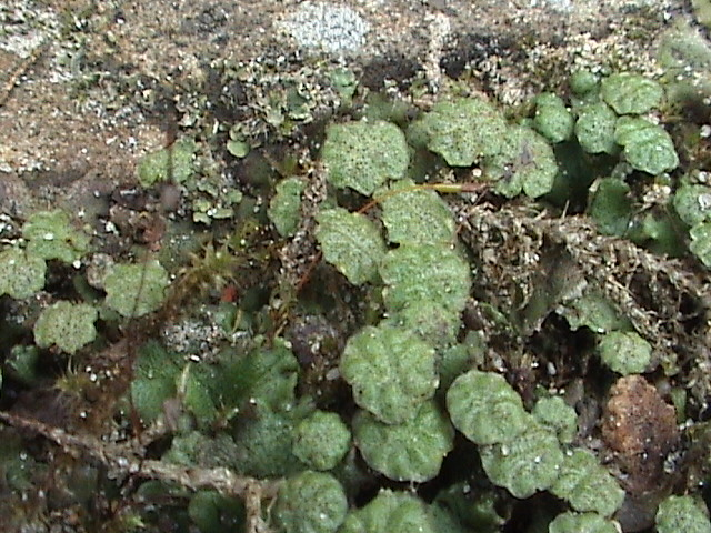 Brunnenlebermoos (Marchantia polymorpha), sporehats, near Schüttorf